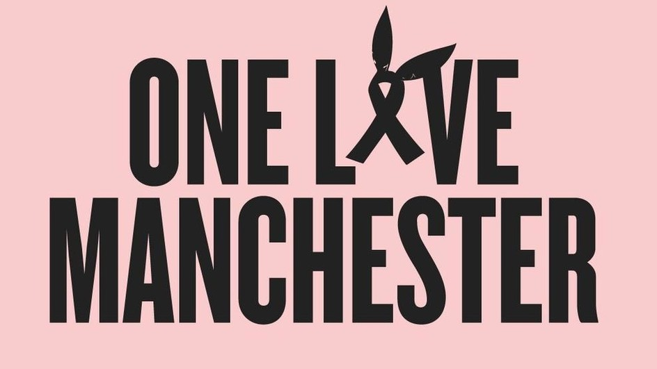 Logo for the Ariana Grande benefit concert: One Love Manchester